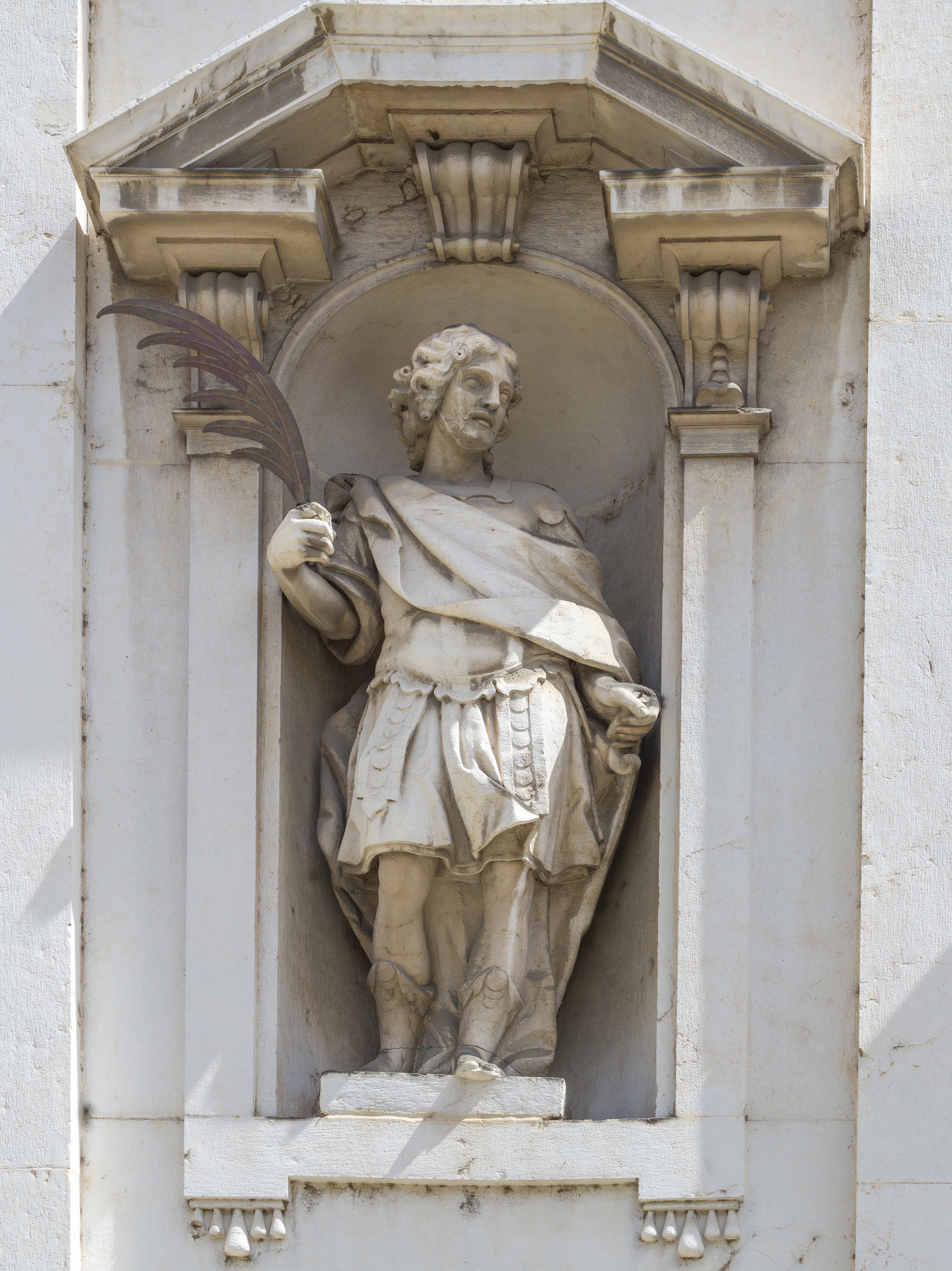 Detail of the facade of the Santi Faustino e Giovita church in Brescia - Statue of Saint Jovita by Sante Calegari.